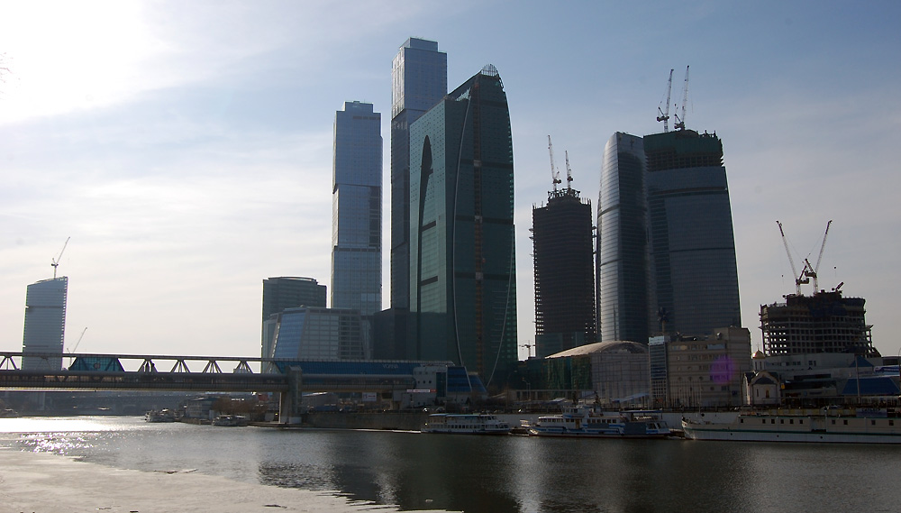 Moscow-city 2010,March